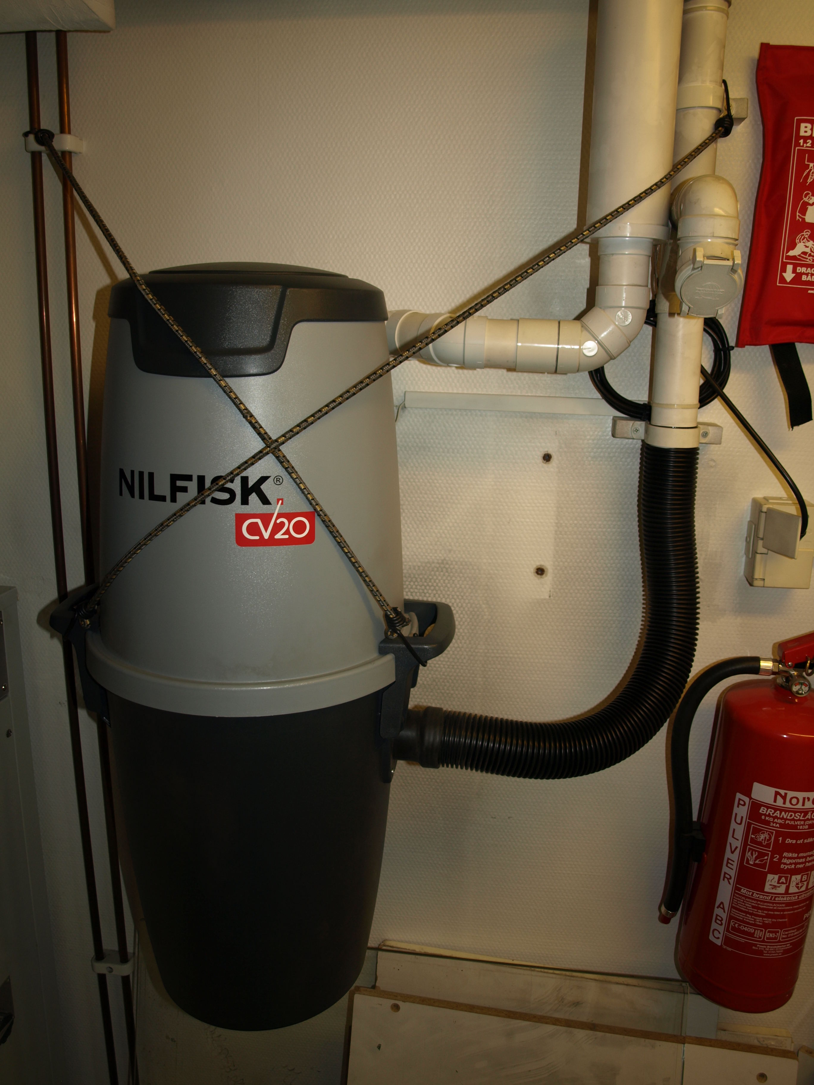 A form of vacuum cleaner.